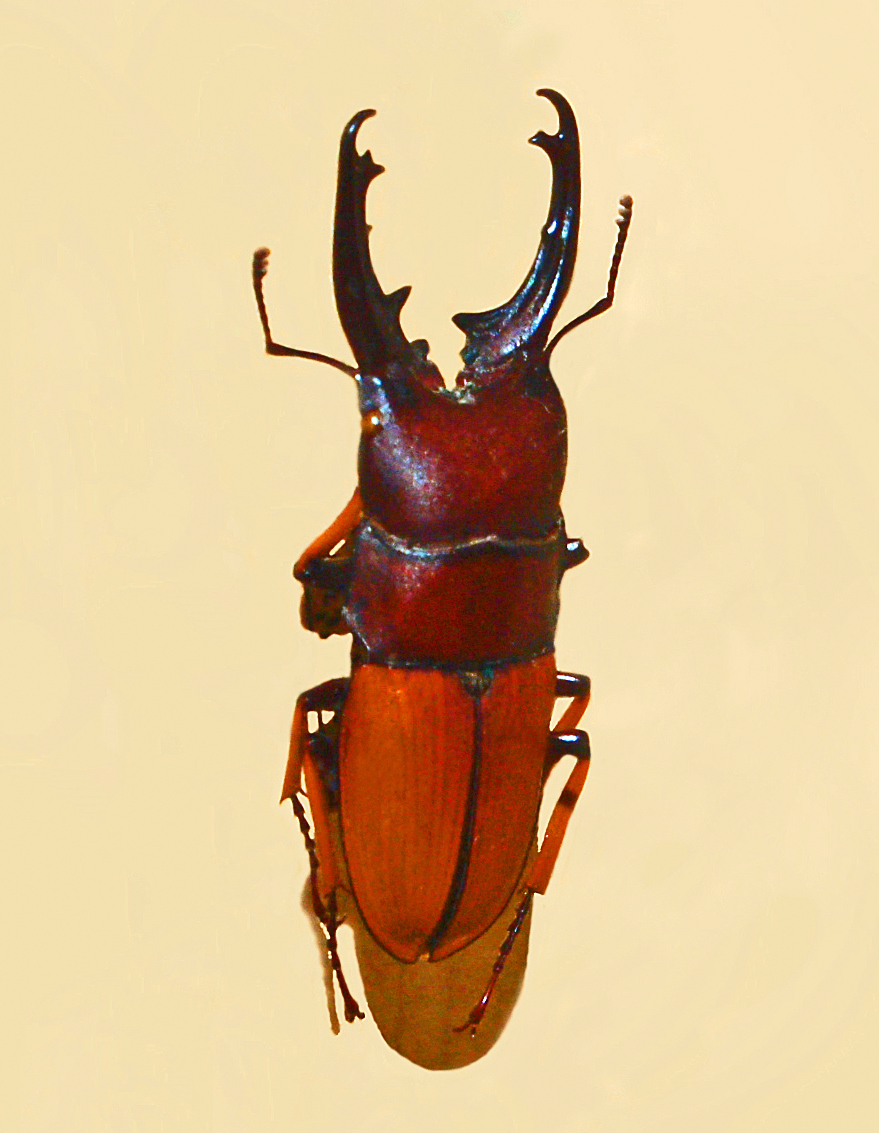 Leptinopterus tibialis from Brazil. Male